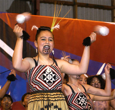 A young girl performing the poi with her group (Manutuke from Gisbourne, New Zealand).